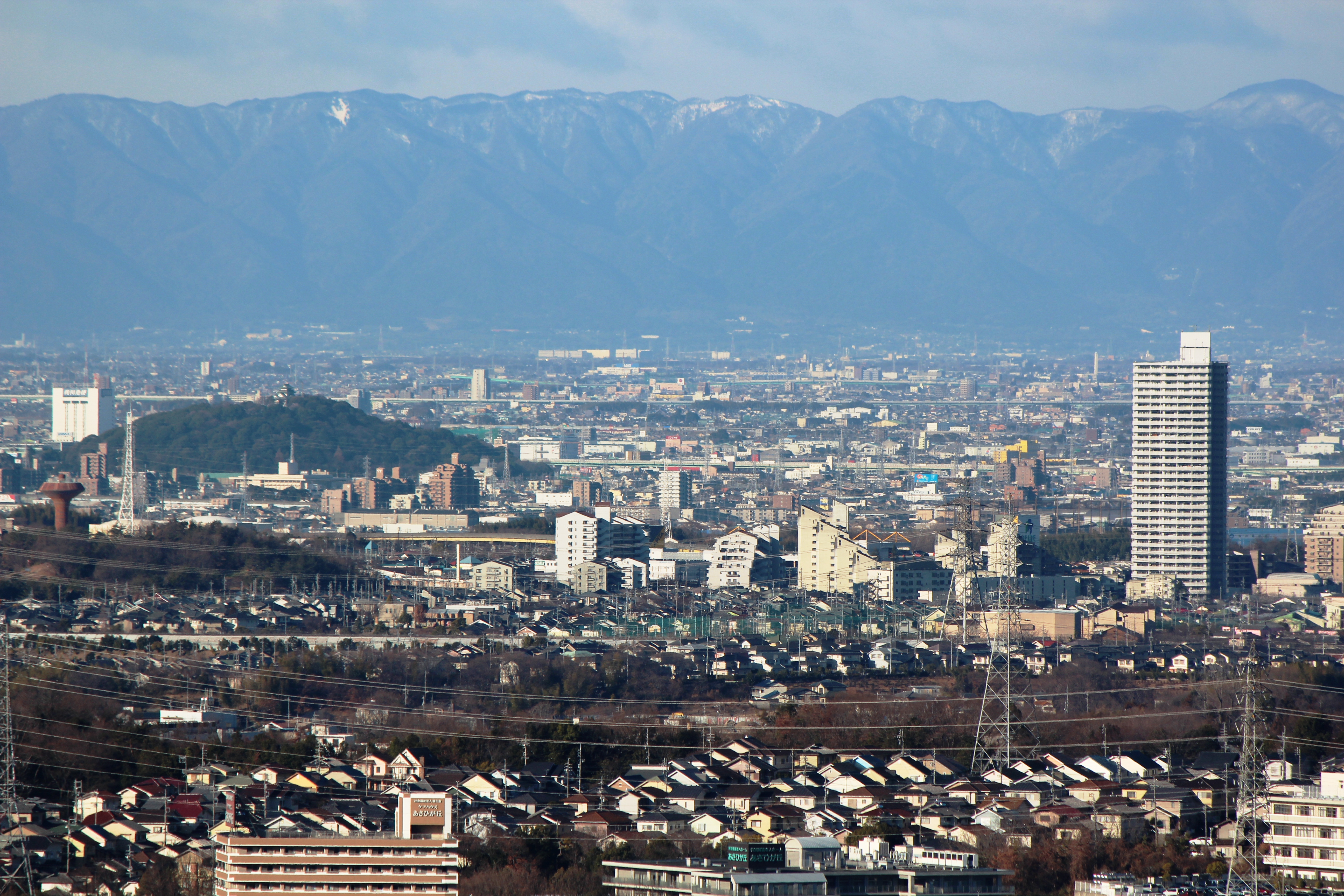 Mount Komaki and Skystage 33 from Mount Nishitakamori in Kasugai, Aichi prefecture, Japan.